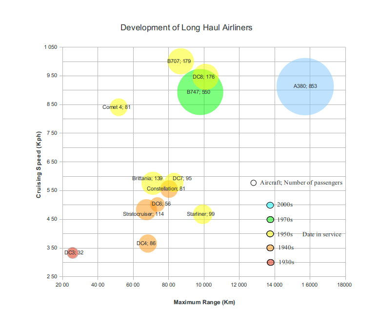 Development of the capabilities of long haul airliners showing some notable aircraft.